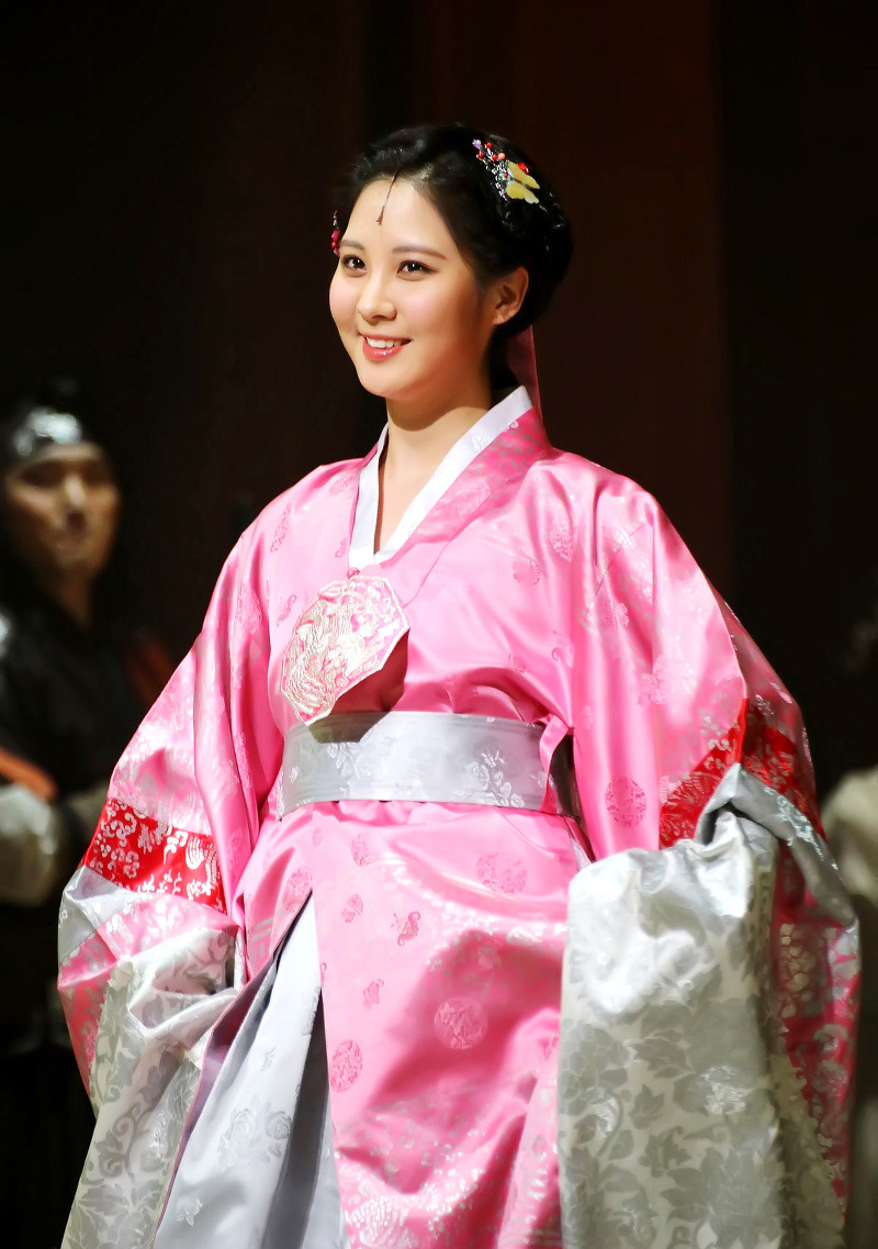 Seohyun in "The Moon Embrace The Sun" musical in January 2014.